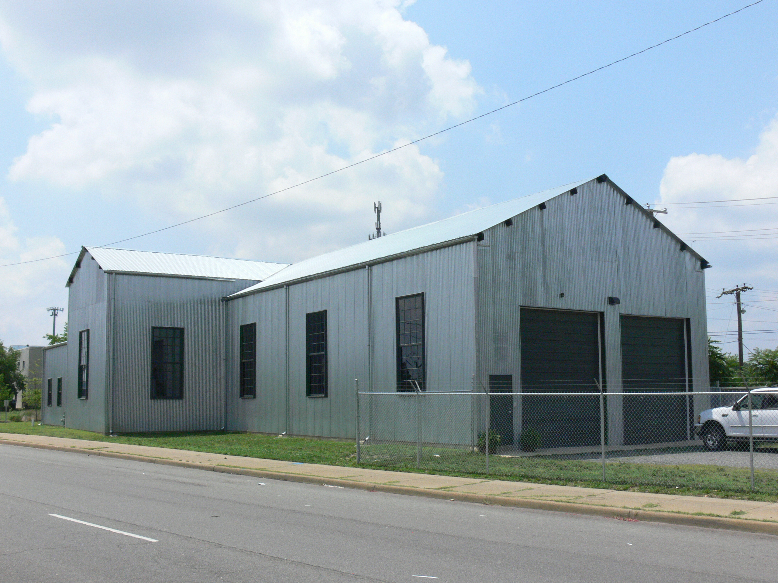 The former interurban car barn for the Richmond and Chesapeake Bay Railway; on the National Register of Historic Places